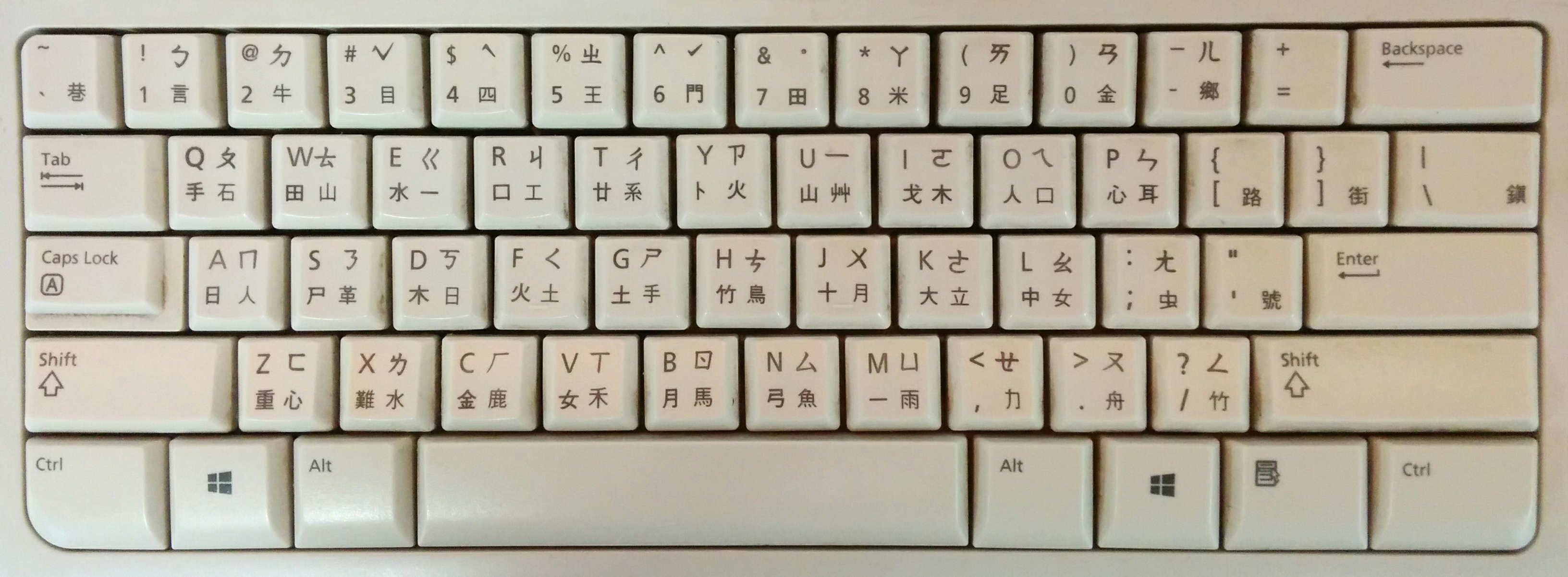 A keyboard with QWERTY layout, Cangjie input method layout, Dayi input method layout, Bopomofo input method layout. It is provided by Kowloon Bay MTR Station in Hong Kong.